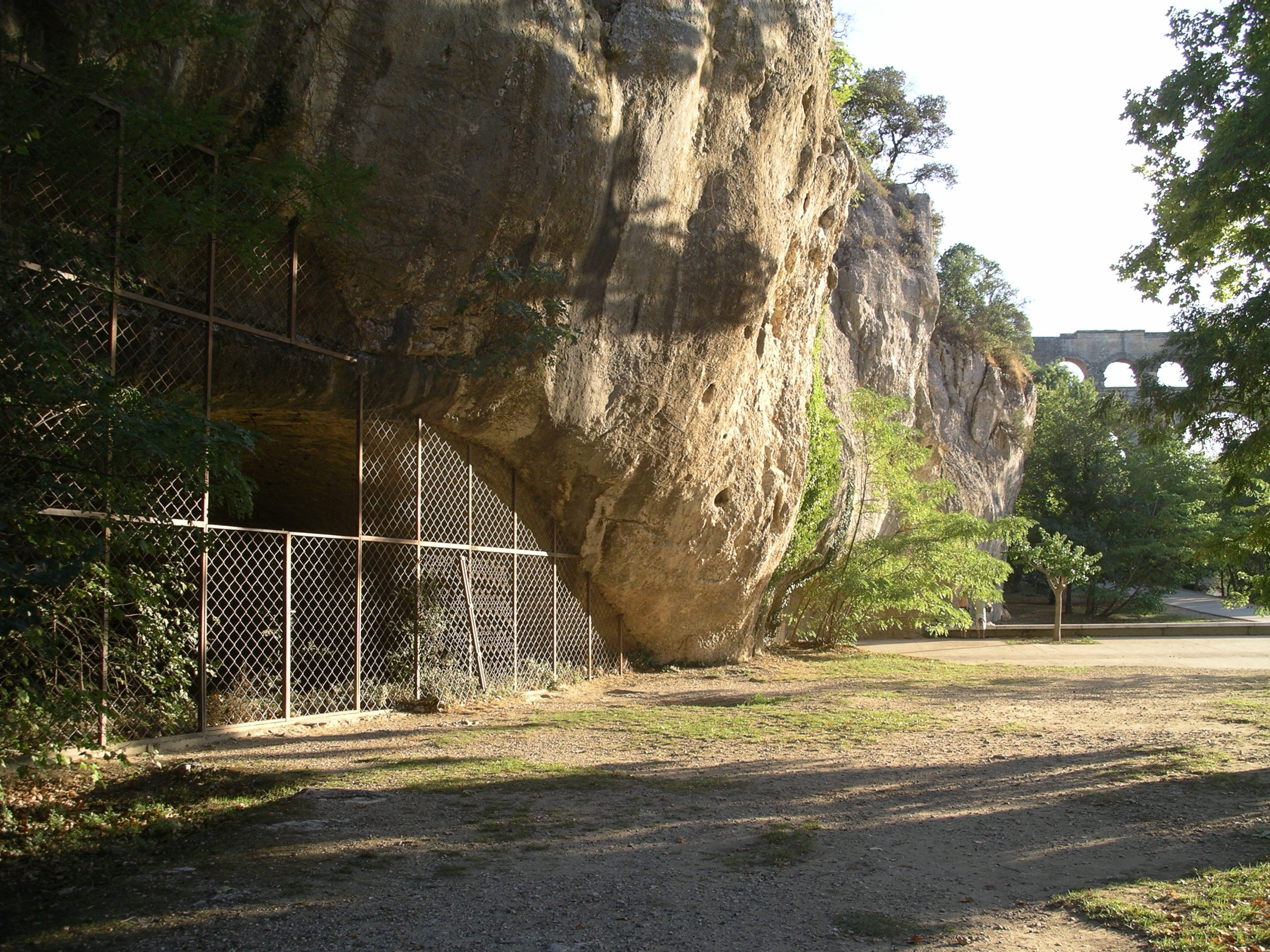 The "Salpêtrière" cave, near the "pont-du-Gard" roman aqueduct (Remoulins, Gard), France